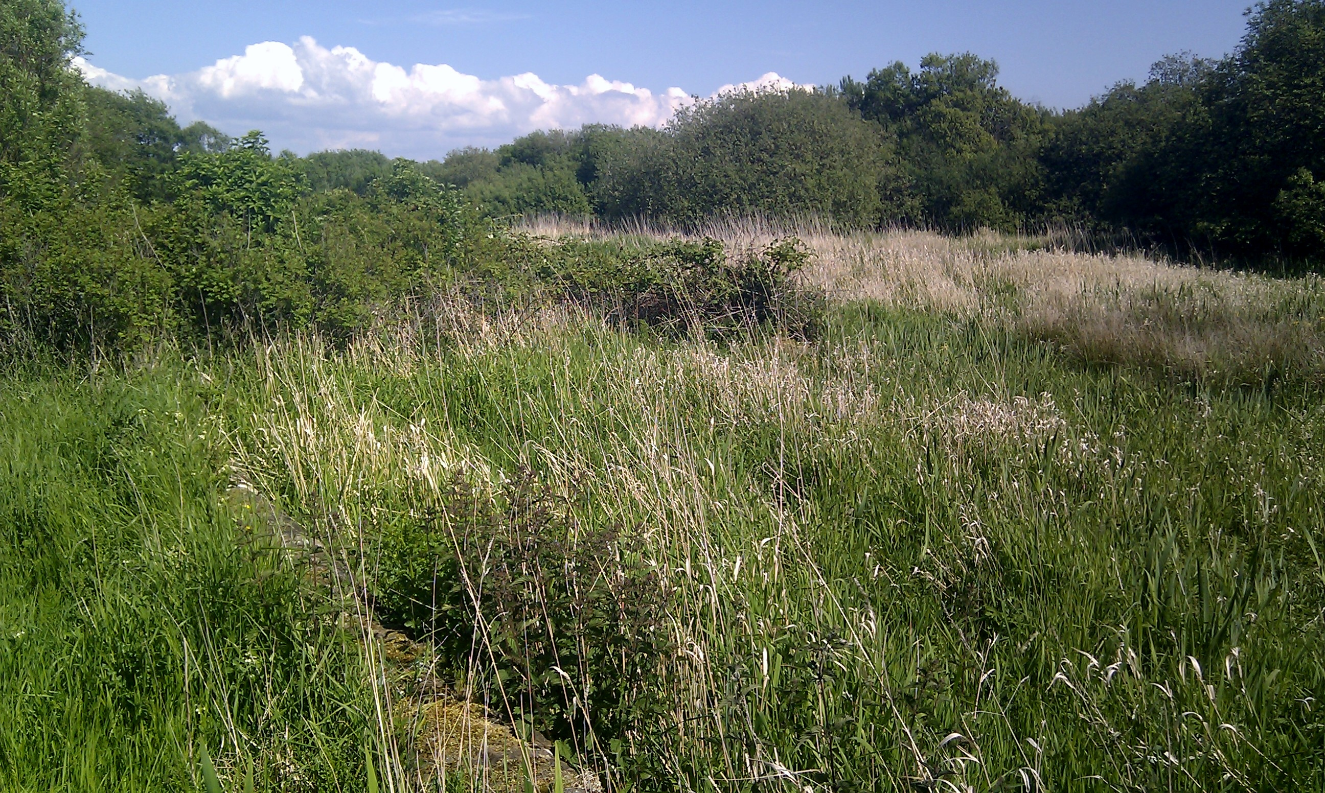 The course of the old Stevenston Canal in Ardeer Park, North Ayrshire, Scotland. The old wall lies to the left. A footpath lay to th right and a footbridge was situated nearby.